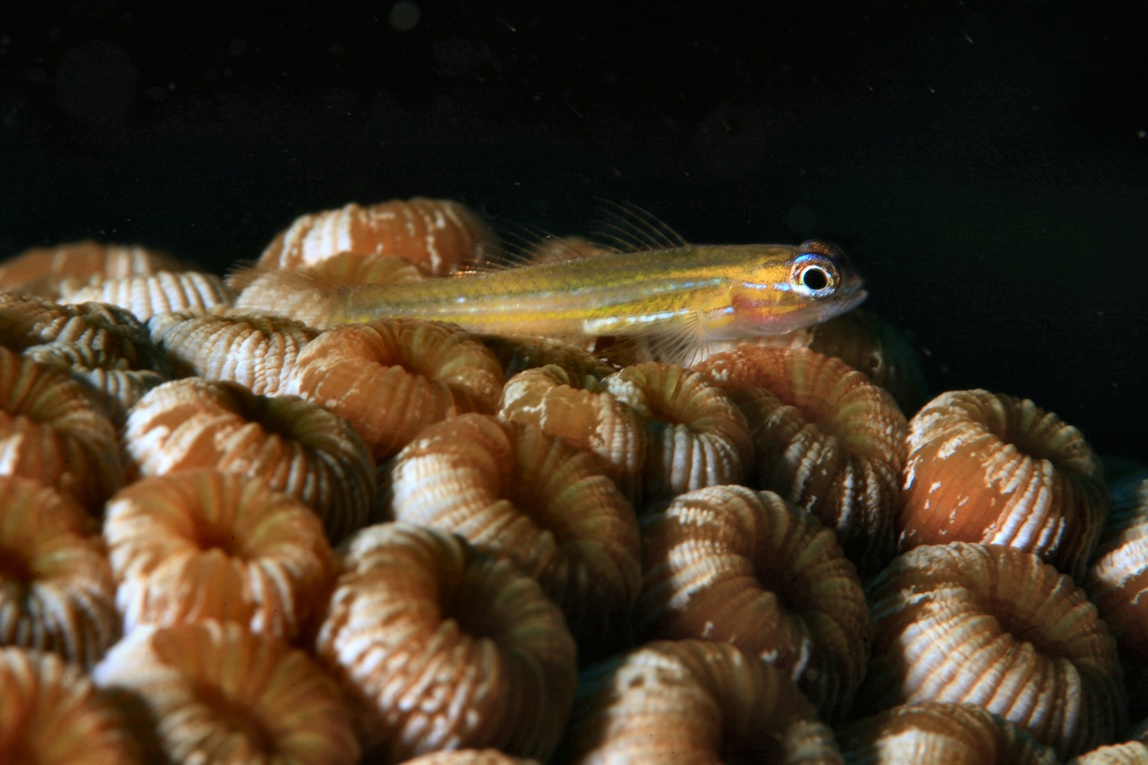 Peppermint Goby (Coryphopterus lipernes) on Great Star Coral (Monstrea cavernosa). "Harry's Hole Reef," Soto, Curaçao N.A. Sigma 105mm F2.8 EX